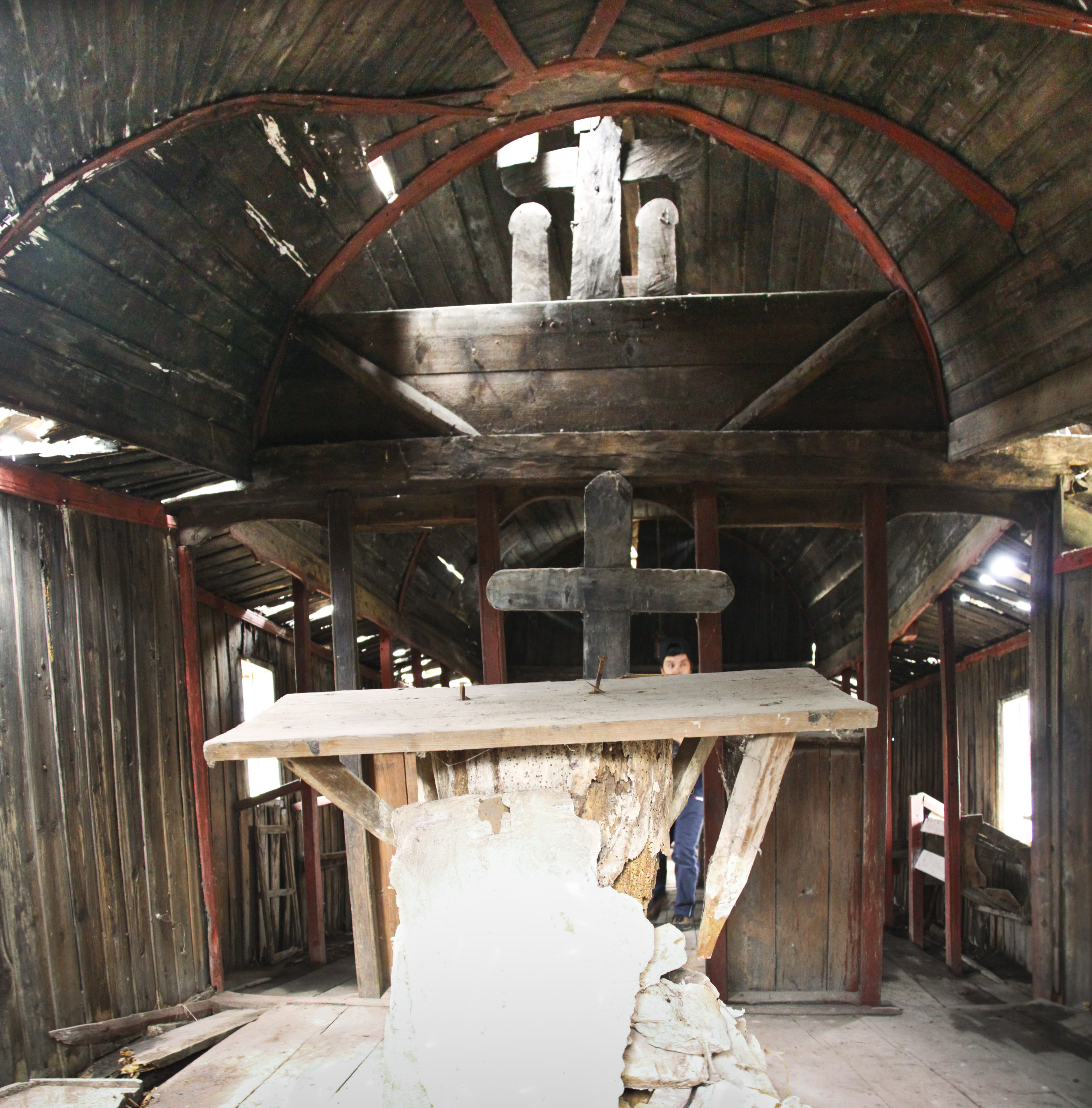 Puranii de Sus, Teleorman county, Romania: the wooden church.